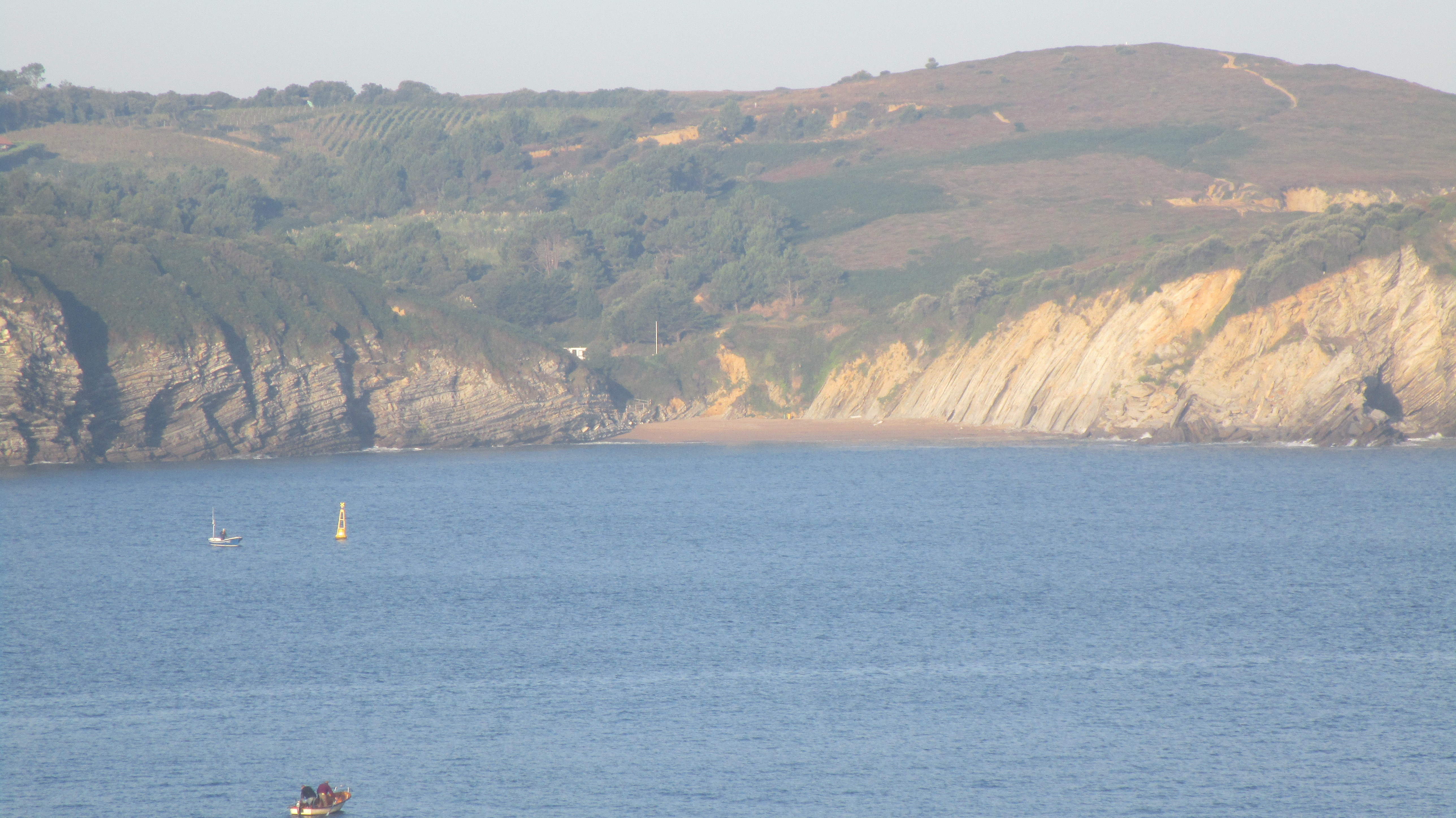 Muriola beach on Barrika coast, as seen from Gorliz, Biscay, Basque Country, Spain. August 25, 2016.